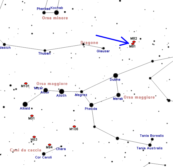 M81